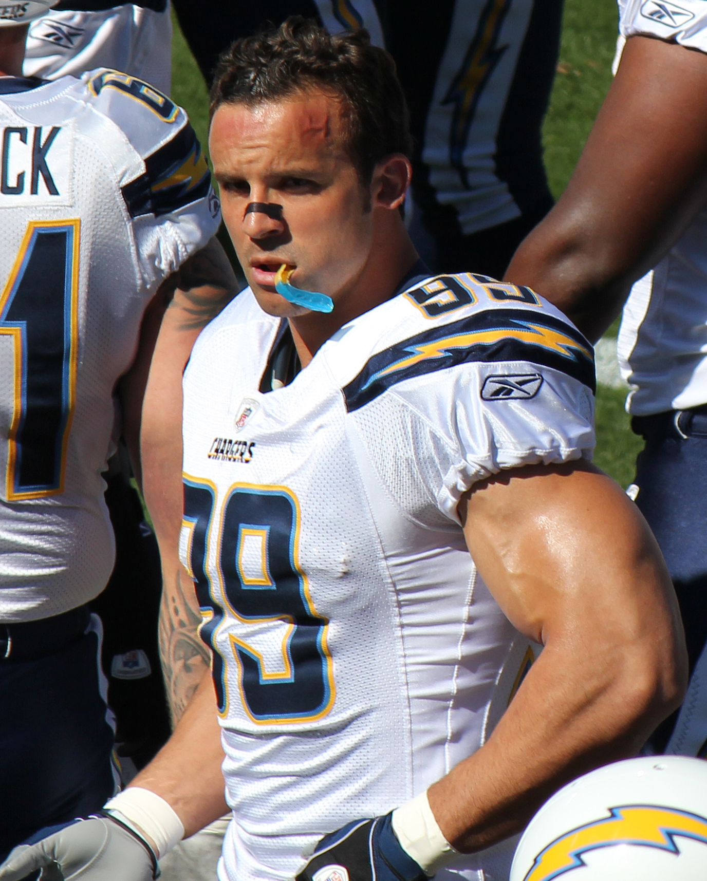 Travis LaBoy, a player on the National Football League.